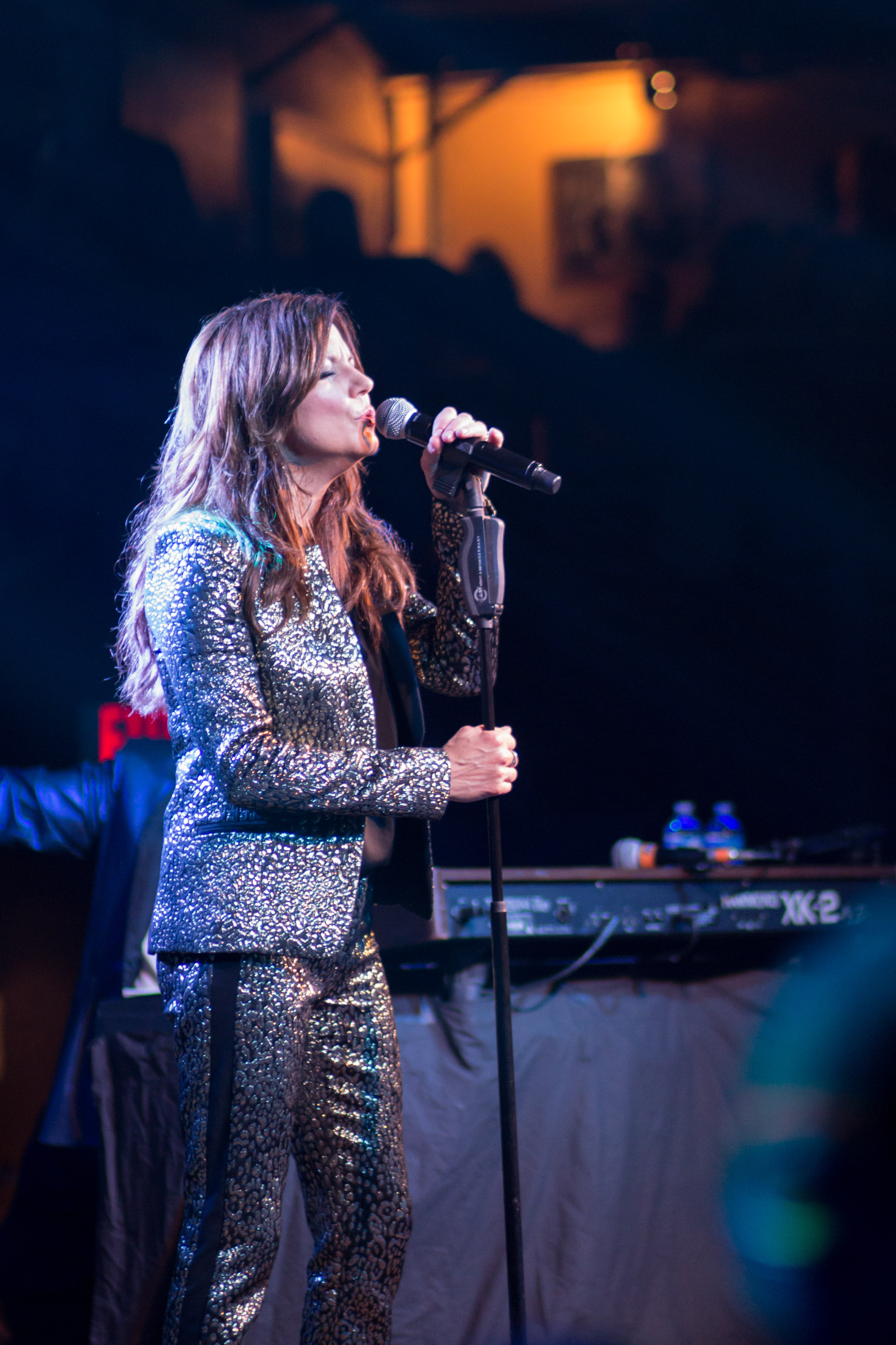 Martina McBride performing at 3rd and Lindsley in Nashville, TN on August 31, 2014